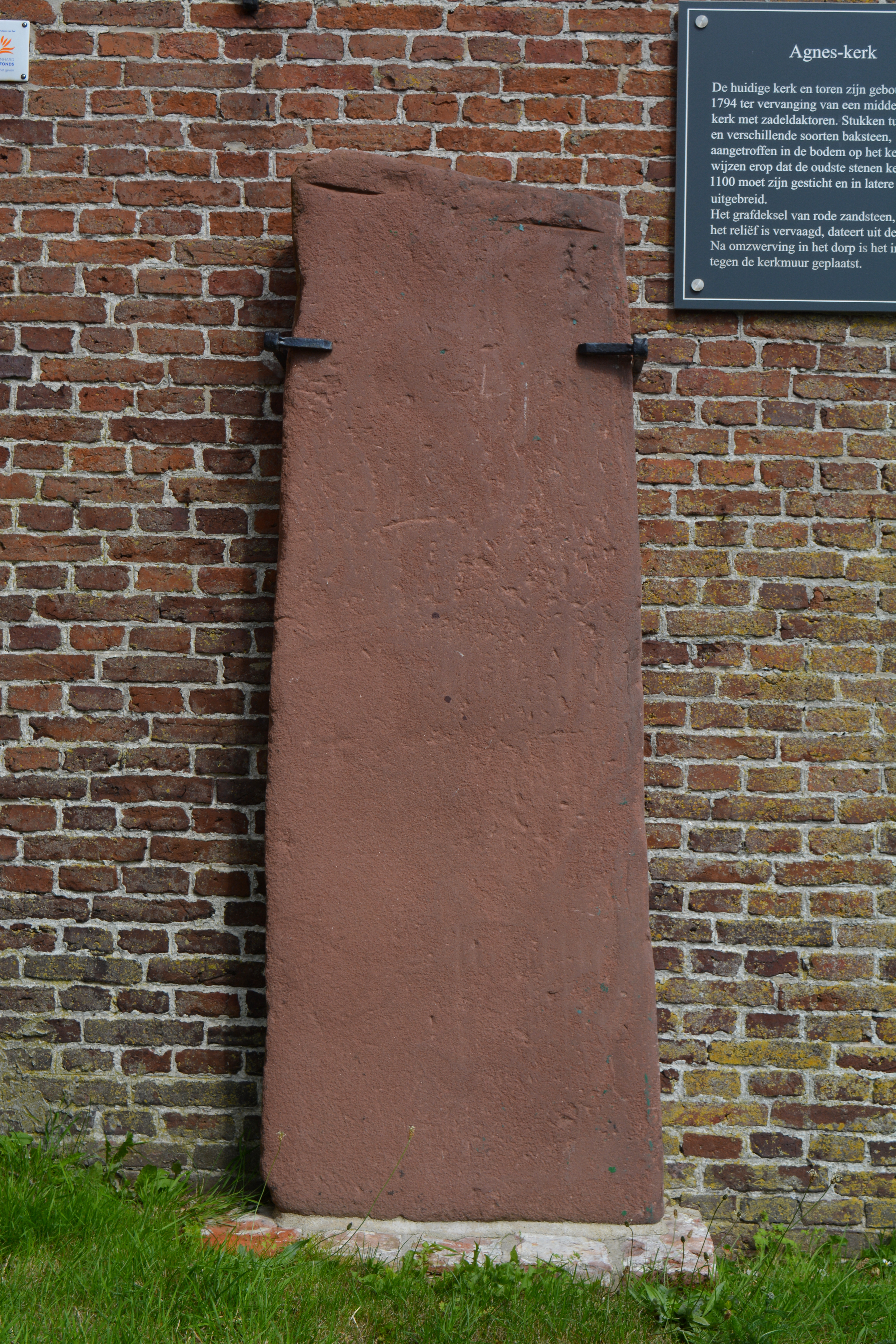 Earnewâld, Agnes Church, gravestone (12th. century)